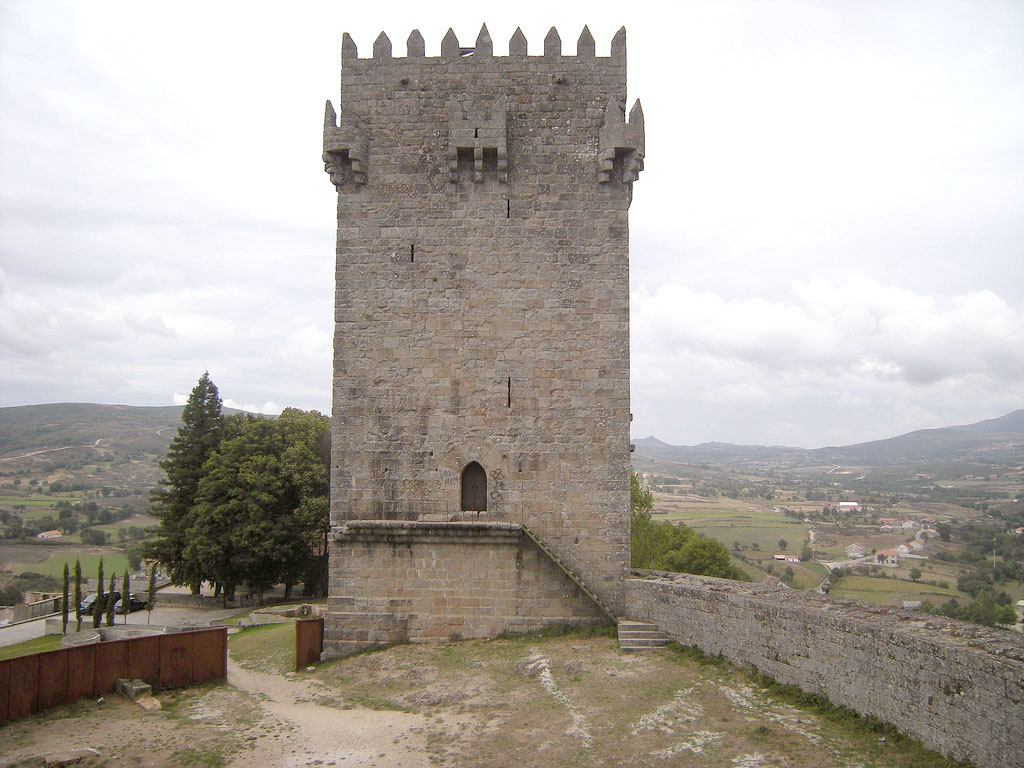 Montalegre Castle, Portugal